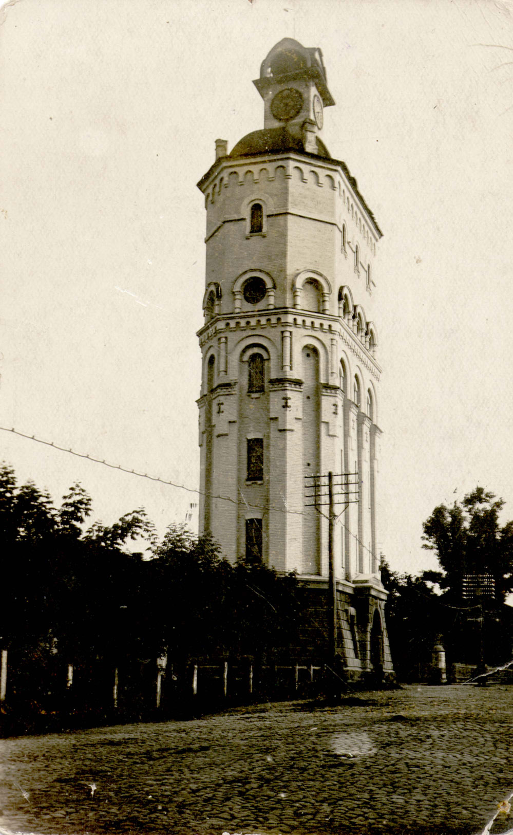 Vinnytsya. Kozickyj square. This building was a water tower, and now it is one of the symbols of the town. The tower was built in 1911 according to the project of the architect Grigoriy Artinov. Since 15th February 1993 here is situated “The Museum of Vinnytsya soldiers who have died in Afghanistan“